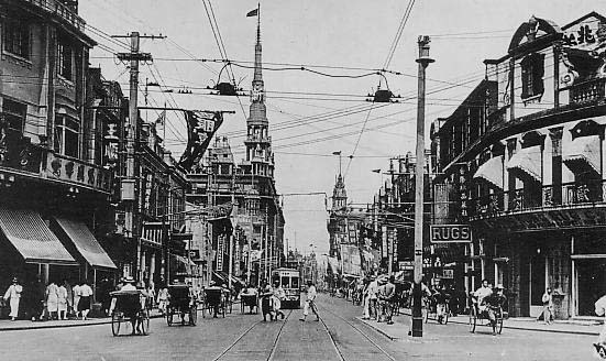 Nanking Road (Shanghai)